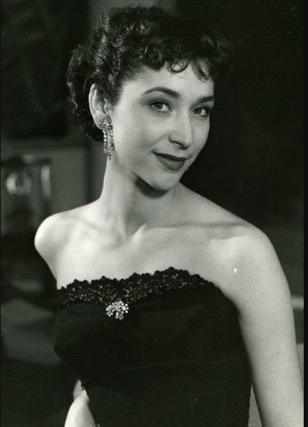 Hariette Garellick Swedish actor